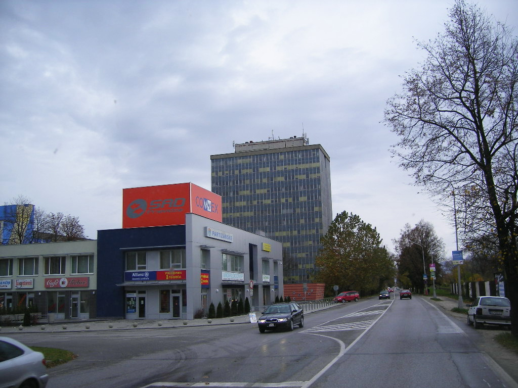 Partizánske - Route 64 (Nitrianska ulica)